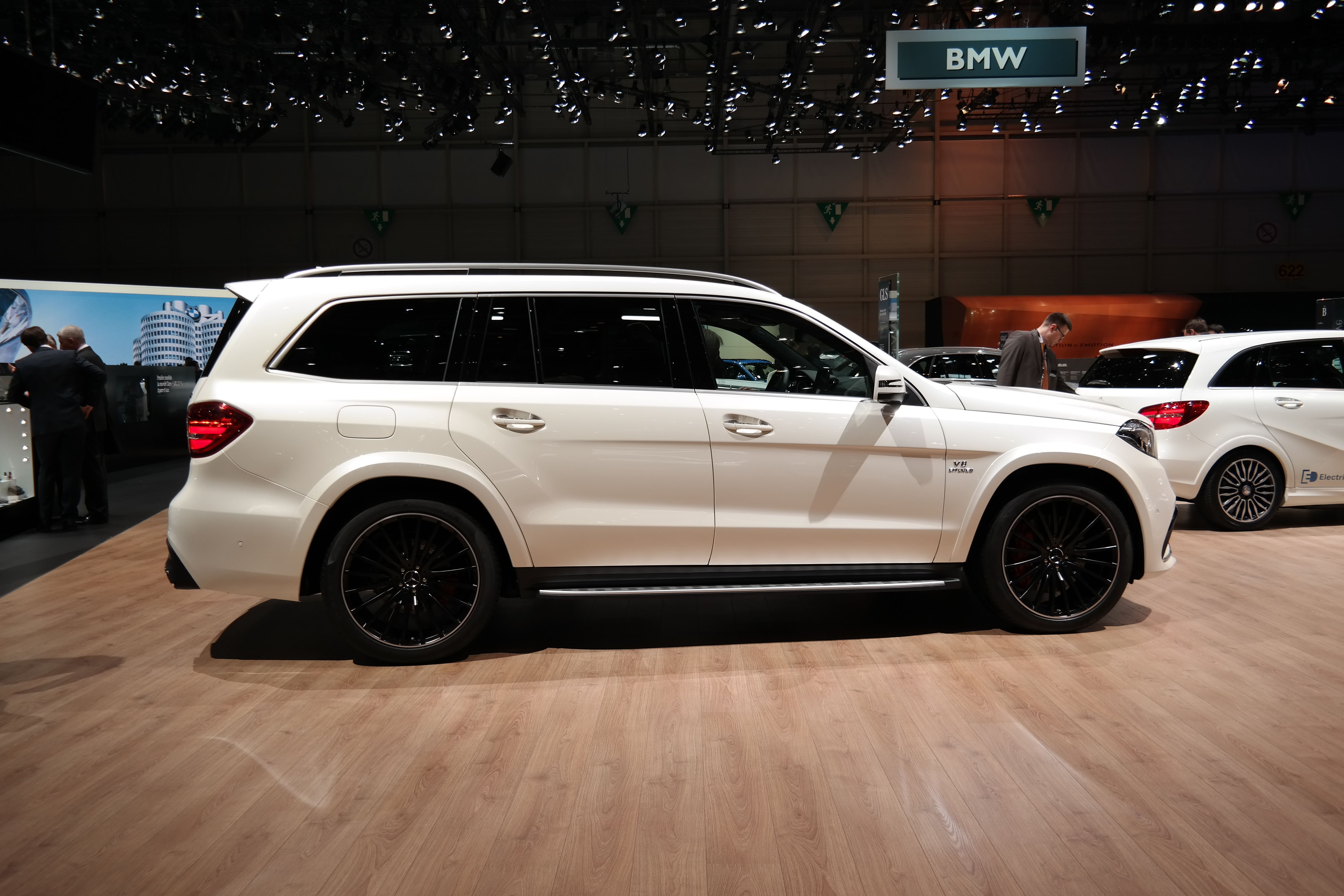 Geneva Motor Show 2016 (photo taken on the first press day)